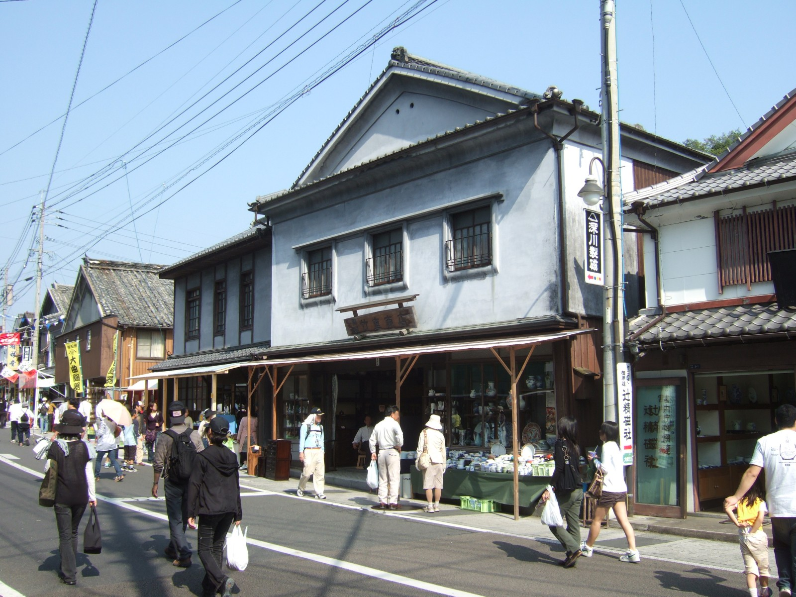 The Arita Ceramic Fair, helds on April 29 and May 5 every year in Arita Town, Saga. This photo was taken in April 2008.